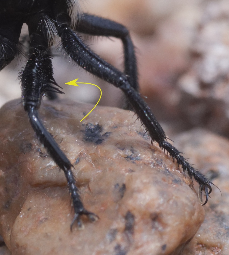 The yellow arrow points at the ventral patch of thick bristles on the middle femure of a male Prolepsis lucifer from San Martin